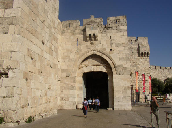 Jaffa Gate (Gate of the Friend, Chevron Gate, Bab al-Halil, The Gate of David's Prayer Shrine, Porta Davidi, Sha'ar Yaffo) in Jerusalem, Israel